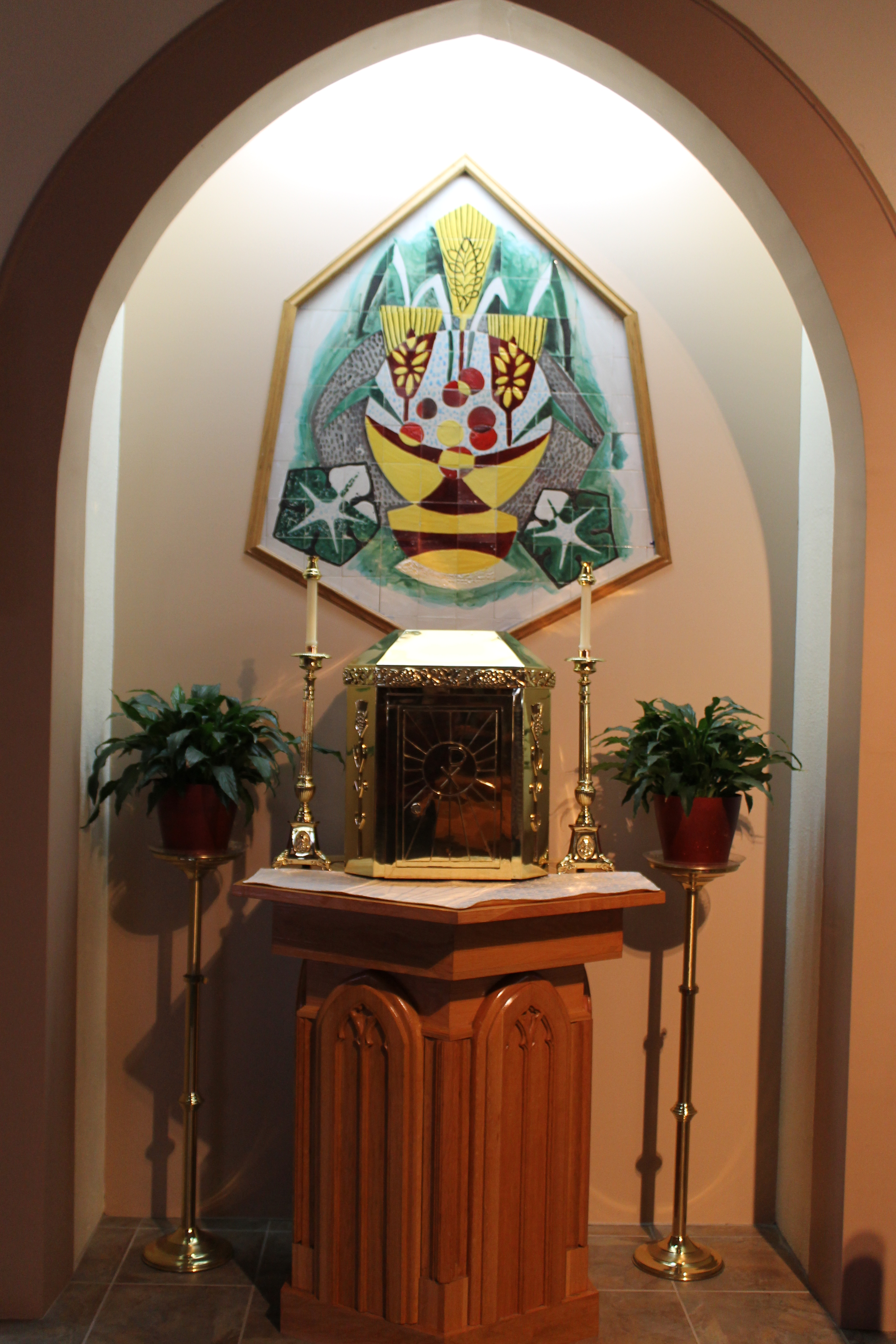 Tabernacle, St Pius X Catholic Church